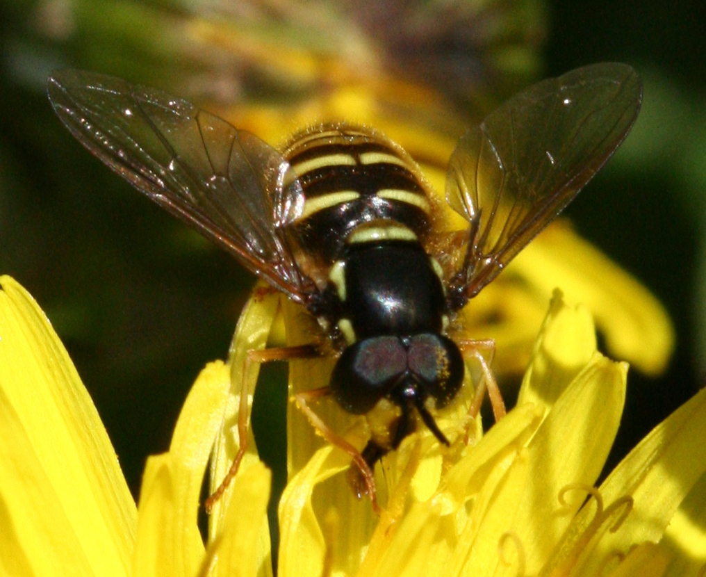 A Chrysotoxum arcuatum male